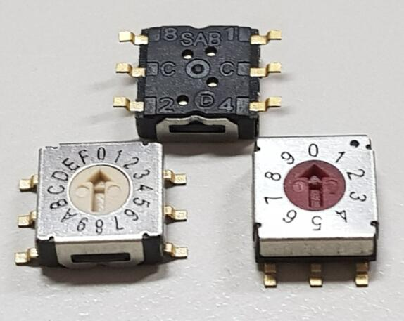 A Miniature Rotary coded switch